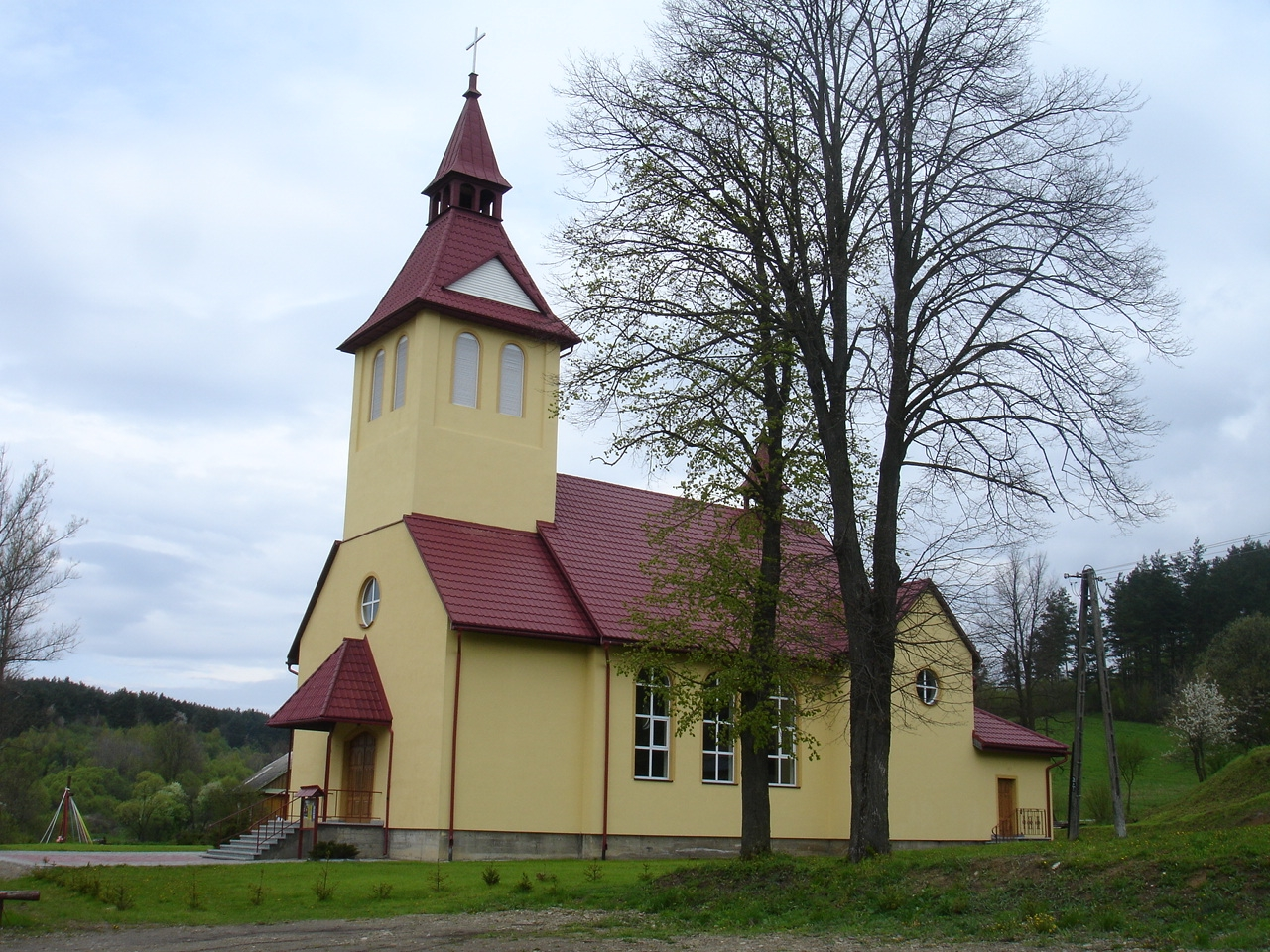 Lipa new latin church